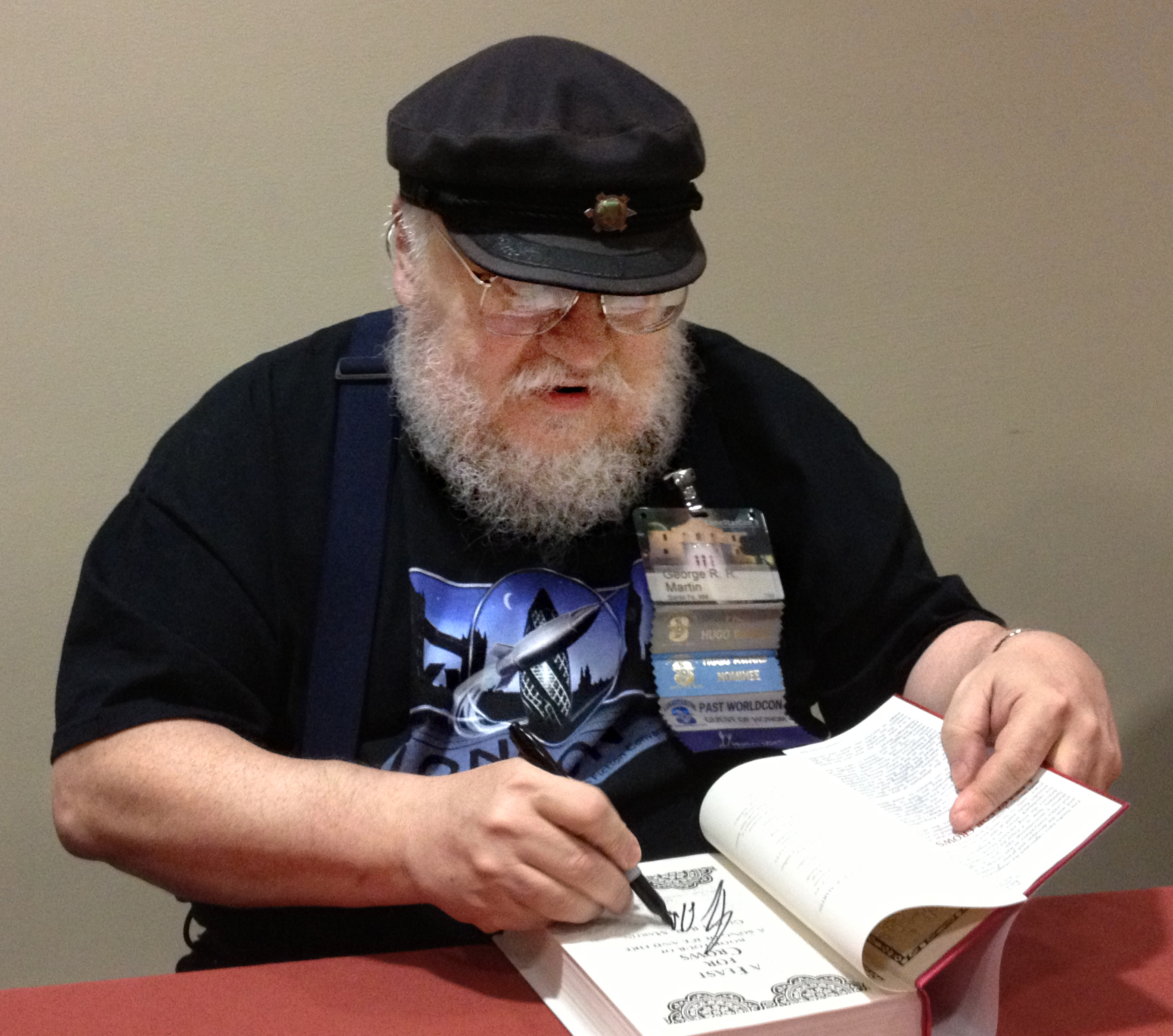 "Game of Thrones" author George R. R. Martin signing one of his novels during a special Saturday session at LoneStarCon 3, the 71st World Science Fiction Convention in San Antonio, Texas.